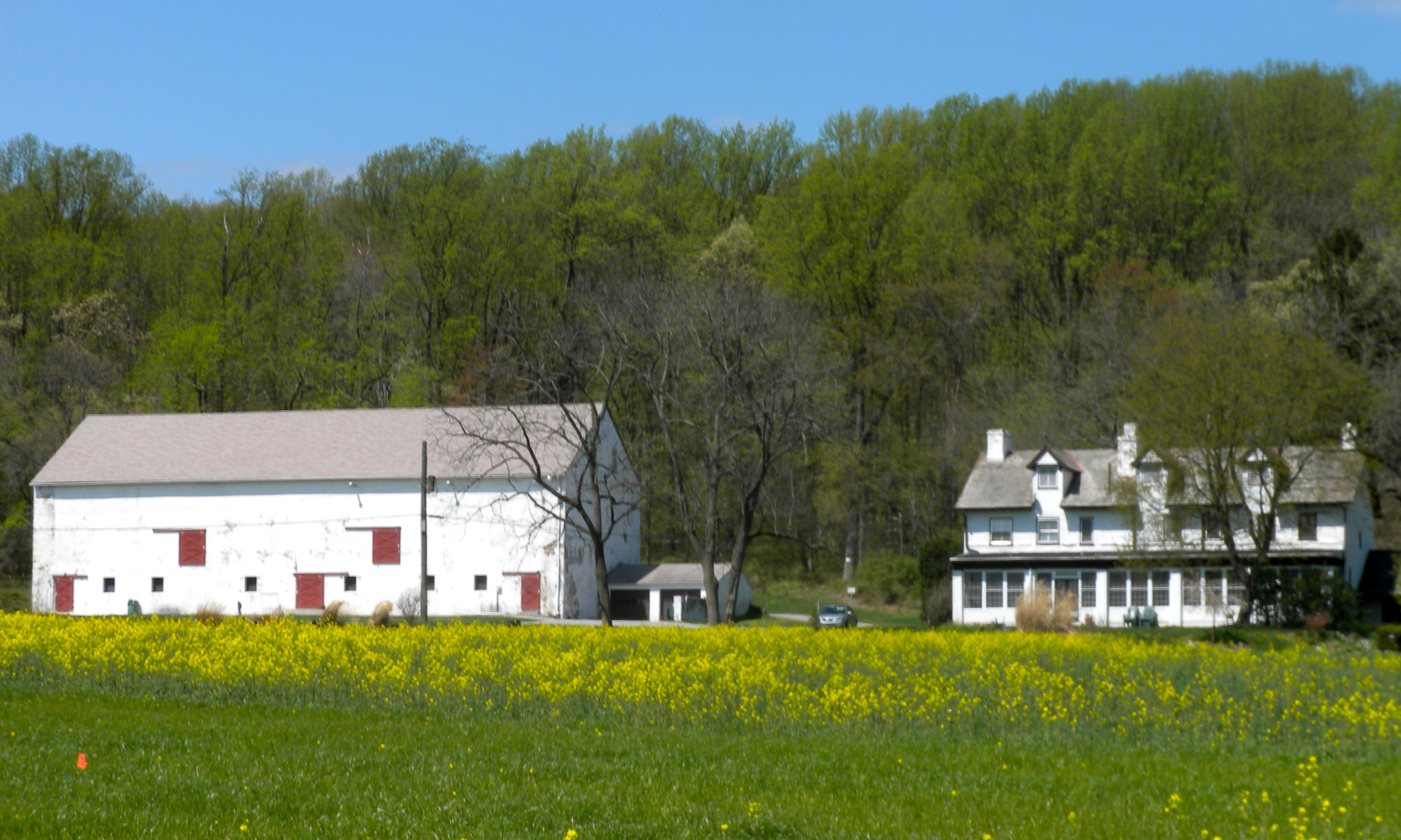 Solitude Farm on NRHP since August 2, 1984. On Church Farm Road (near Old Valley Rd.) in West Whiteland Township, Chester County, PA. Barn is pretty impressive, but the old part is just the gable ends, the sides have been reconstructed from cinder block. The house is nice and big as well. 200 yards west is the Hewson Cox House, also on NRHP, but a non-farm fantasy dwelling.